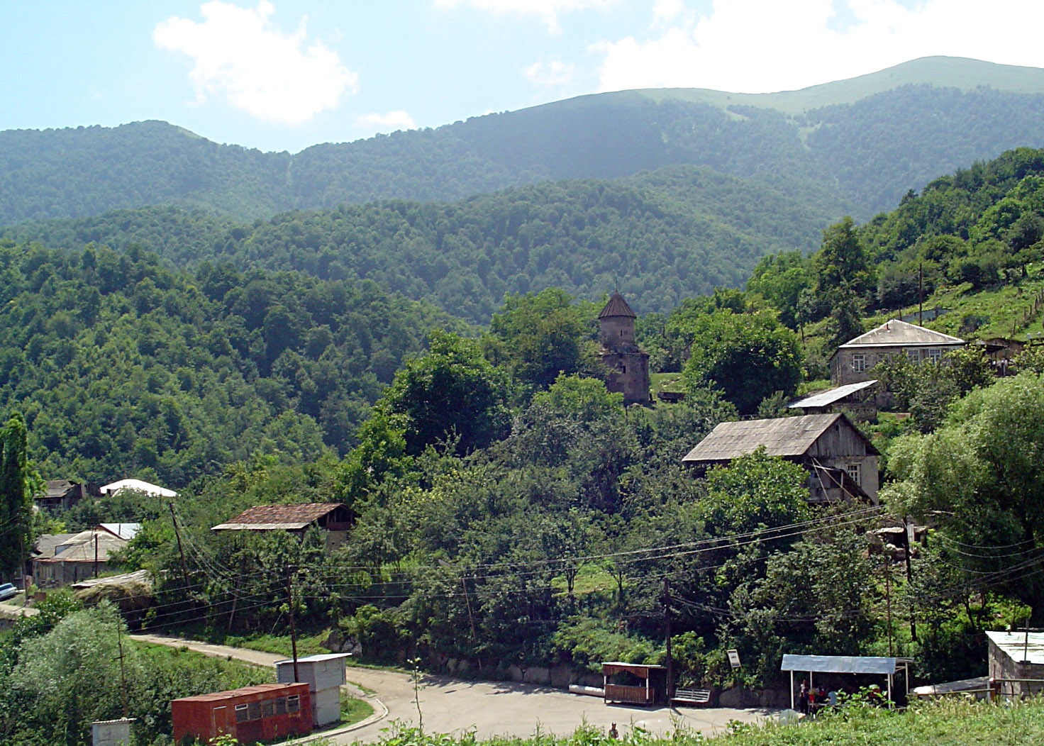 Gosh village from Coshavank. Armenia.